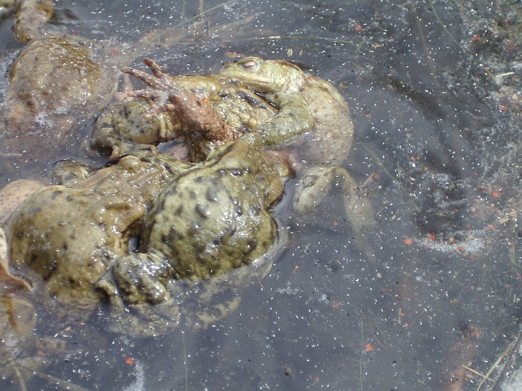 Toads in Weißensee, near Nuremberg